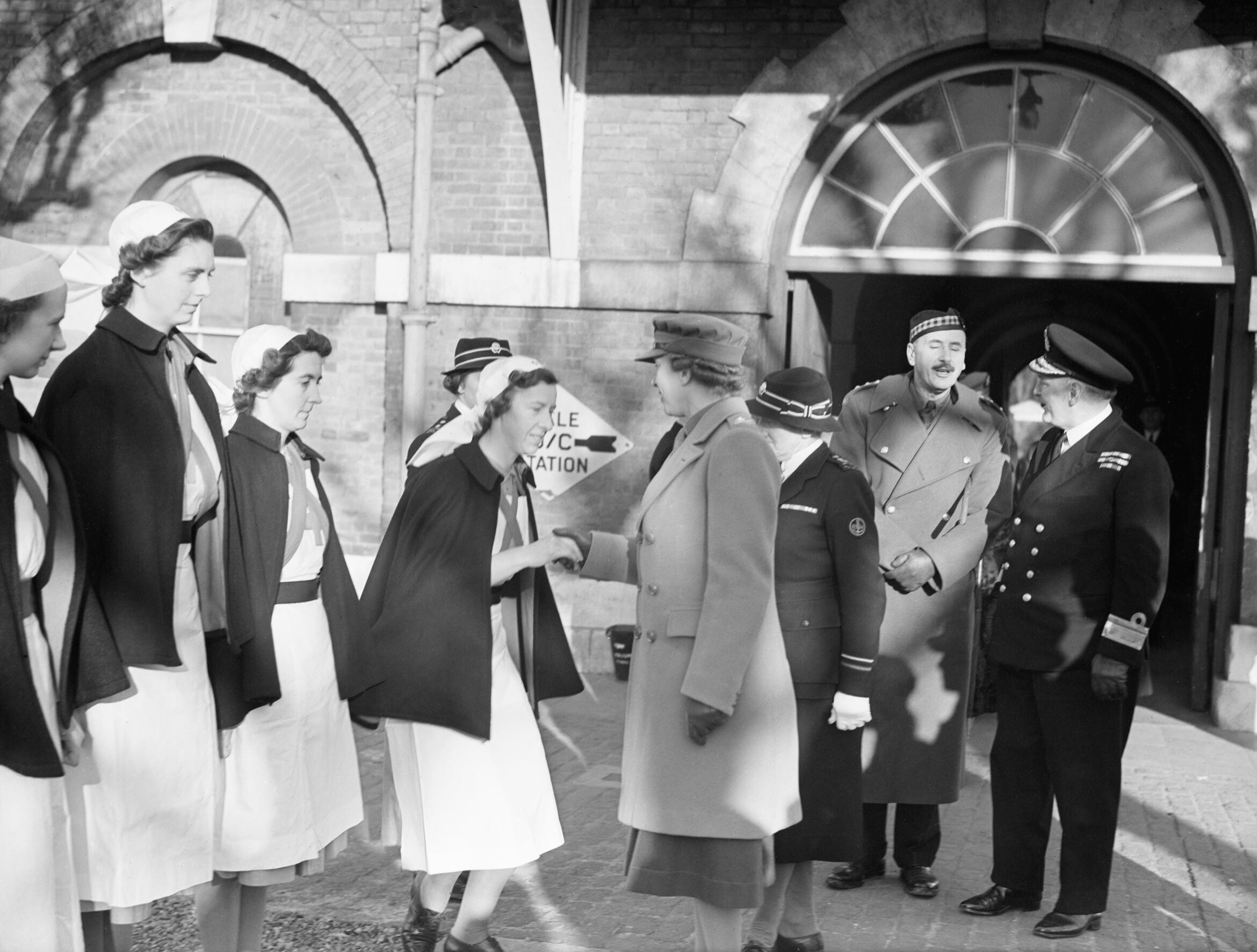 Hrh Princess Royal Visits Rn Hospital Haslar, Gosport, 4 January 1943 One of the VAD's being introduced to the Princess Royal during her visit ot the Royal Naval Hospital Haslar, in Gosport. Rear Admiral William Bradbury, DSO, CBE, Medical Officer in Charge, Haslar, is seen extreme right.